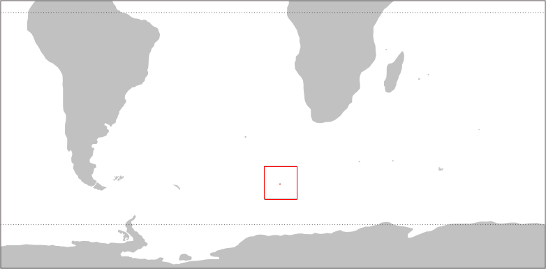 Author: varp Position of the Bouvet Island